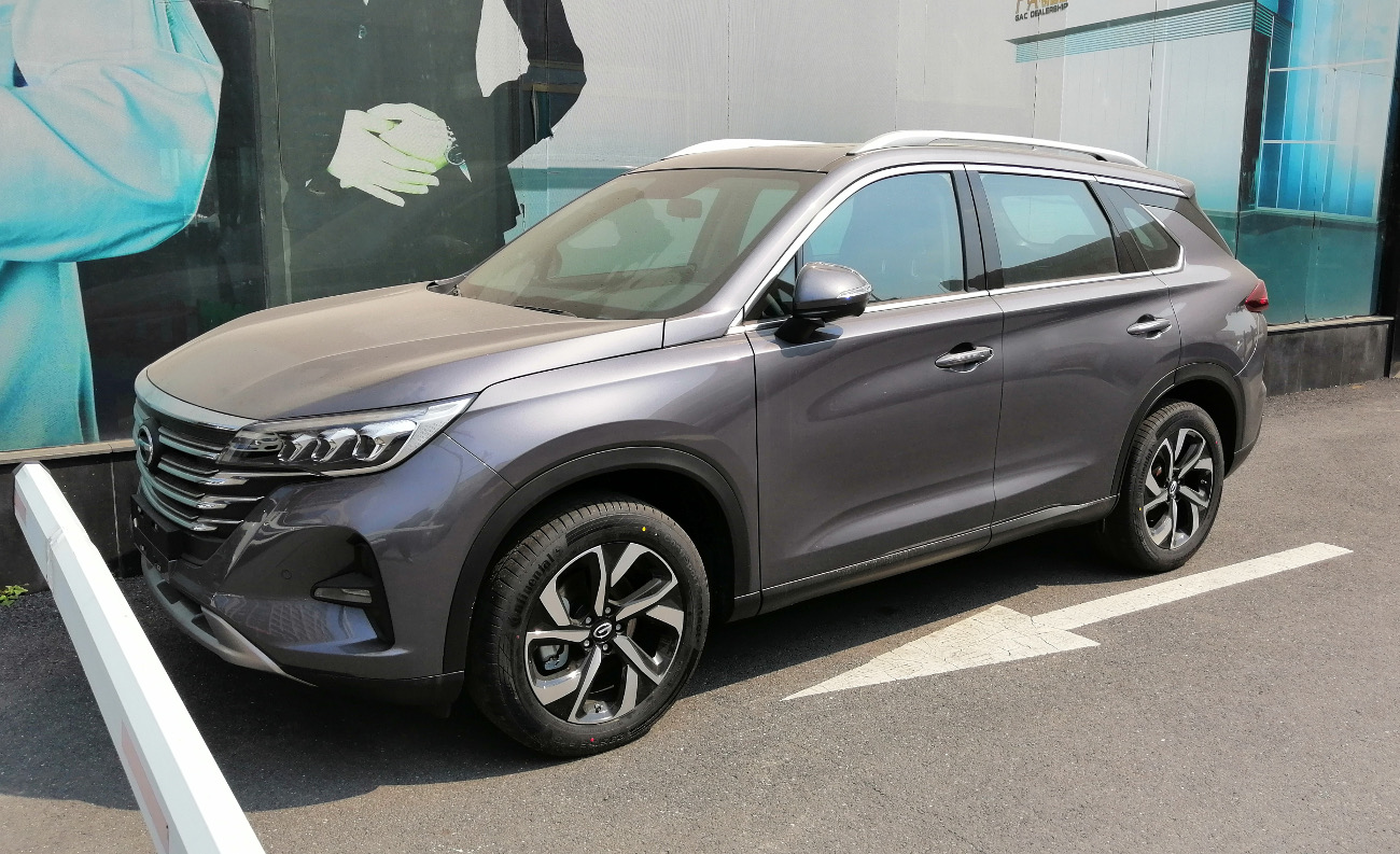 GAC Trumpchi GS5 II photographed in Hefei, Anhui province, China.